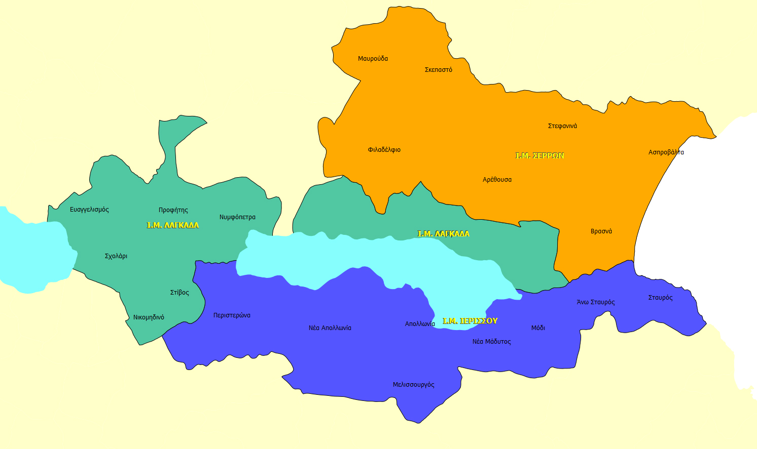 Eastern Orthodox Dioceses on the territory of the municipality of Volvi, Central Macedonia, Greece